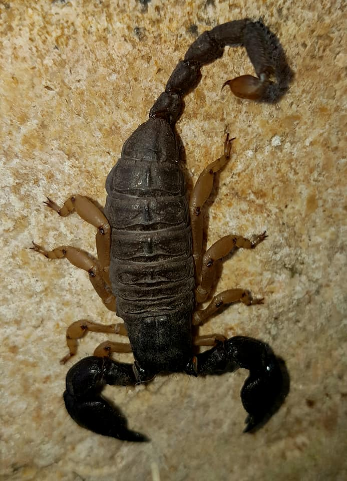 Cheloctonus jonesii - near Orpen in Kruger National Park, Limpopo, South Africa